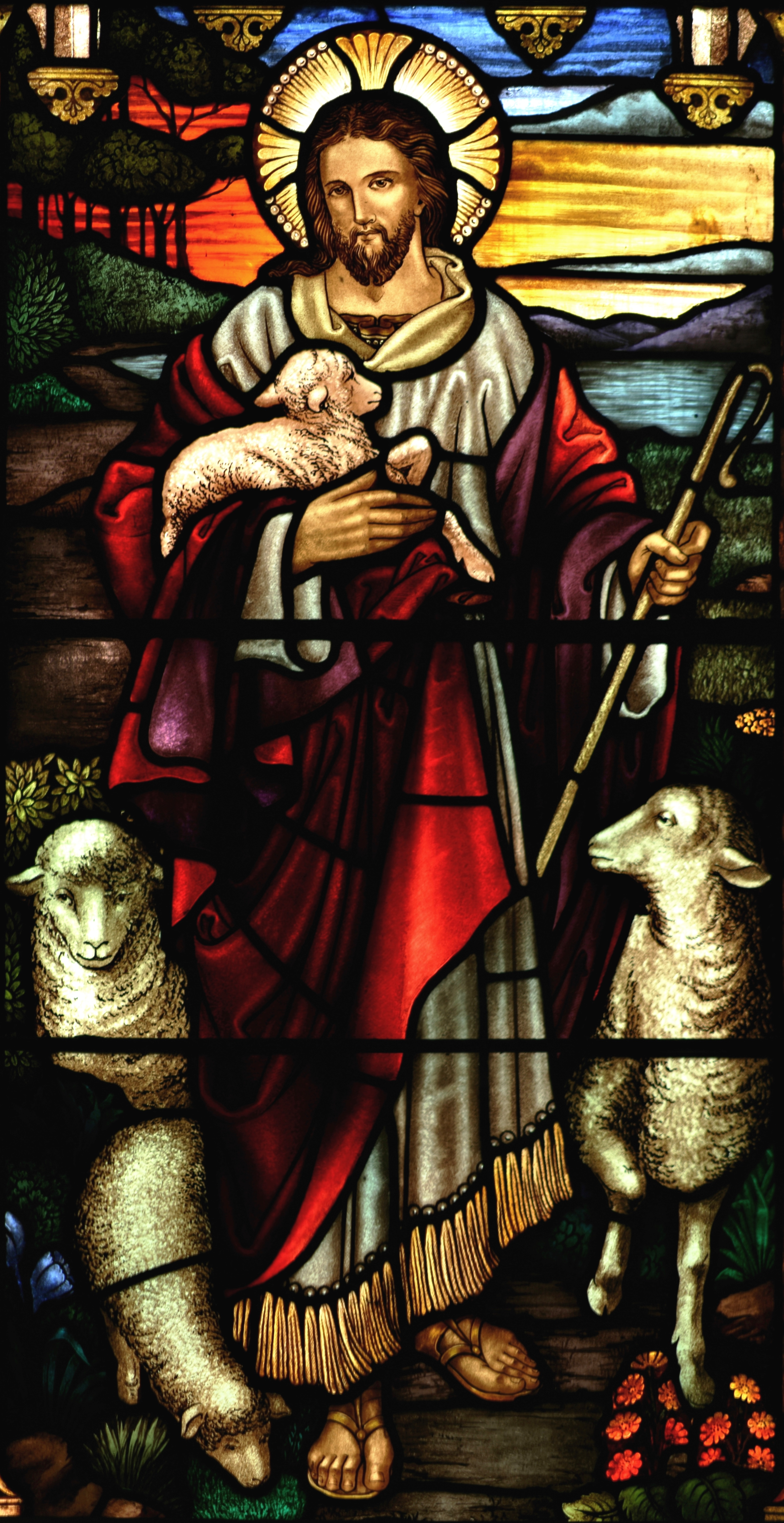 Stained glass at St John the Baptist's Anglican Church [1], Ashfield, New South Wales. Illustrates Jesus' description of himself "I am the Good Shepherd" (from the Gospel of John, chapter 10, verse 11). This version of the image shows a vertical section focusing on Jesus. The memorial window is also captioned: "To the Glory of God and in Loving Memory of William Wright. Died 6th November, 1932. Aged 70 Yrs."